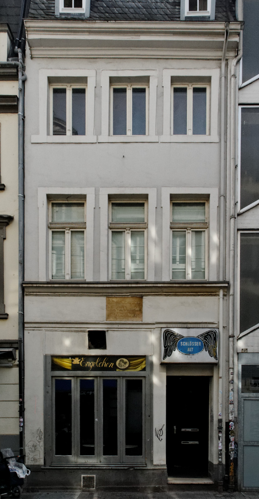 House Kurze Straße 15 in Düsseldorf-Altstadt, Germany